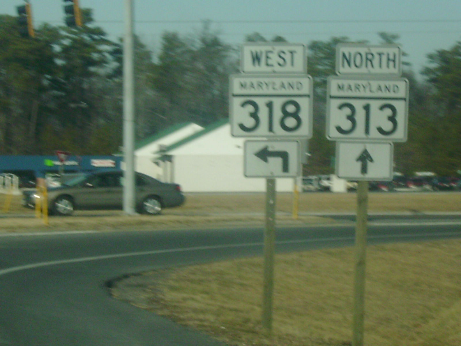 Northern split of Maryland Route 313 and Maryland Route 318 in Federalsburg, Maryland.